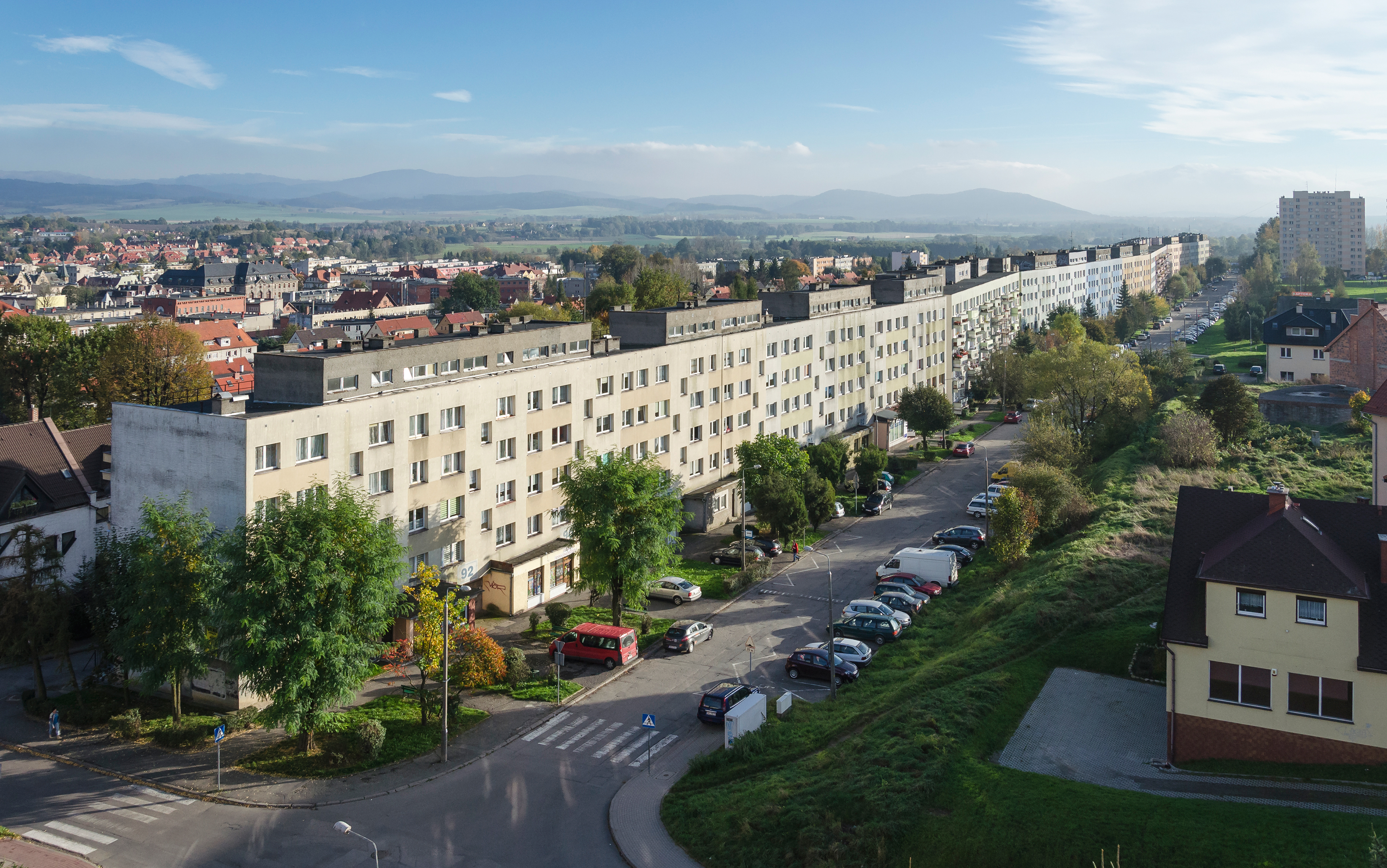 Rodzinna Street in Kłodzko